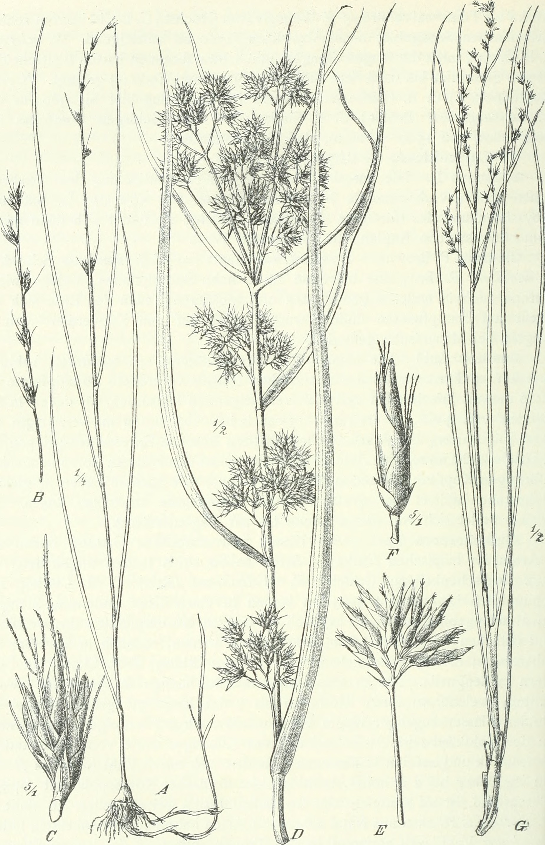 Title: Die Pflanzenwelt Afrikas, insbesondere seiner tropischen Gebiete : Grundzge der Pflanzenverbreitung im Afrika und die Charakterpflanzen Afrikas Year: 1910 (1910s) Authors: Engler, Adolf, 1844-1930 Subjects: Botany Publisher: Leipzig : W. Engelman Text Appearing Before Image: 210 Glumiflorae. — Cyperaceae. Text Appearing After Image: Fig. 141. A—C Scleria bulbifera A. Rieh.; D—F Rhynchospora aurea Vahl; G Eriospora abyssinica A. Rieh.